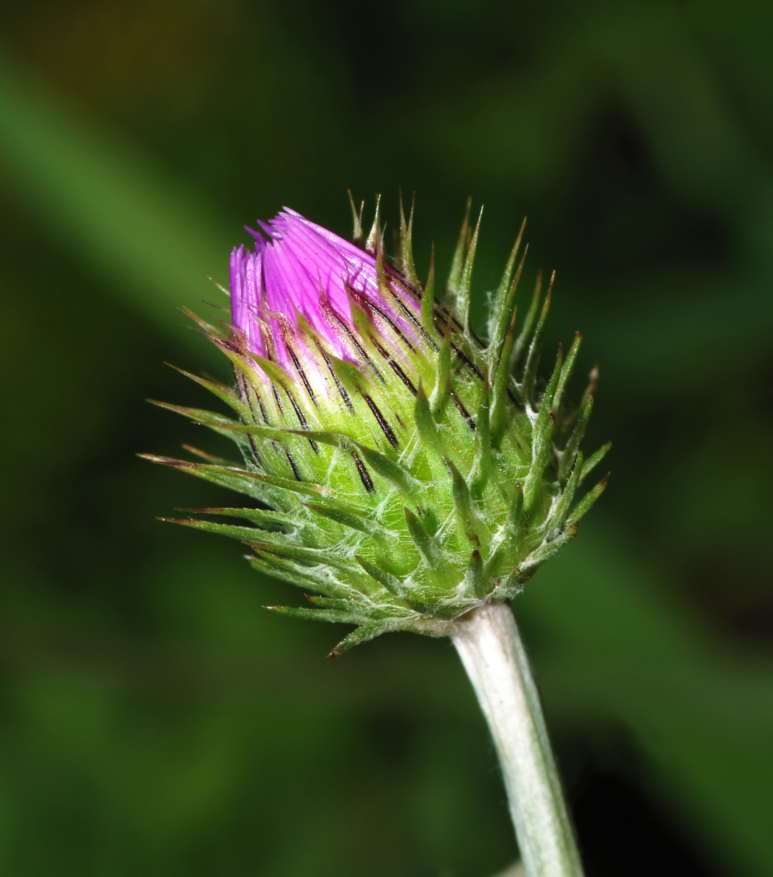 Galactites (Galactites tomentosa)